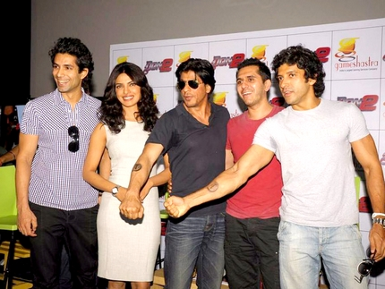 Saahil Shroff, Priyanka Chopra, Shahrukh Khan, Ritesh Sidhwani and Farhan Akhtar at a promotional event for Don 2 in Mumbai.